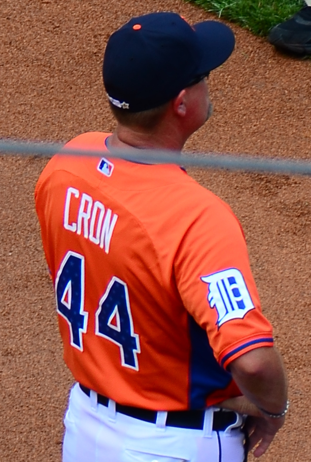 Mookie Wilson, Keith Bodie, Chris Cron and Bob Geren (left to right) stand on the field during introductions at the 2013 All-Star Futures Game